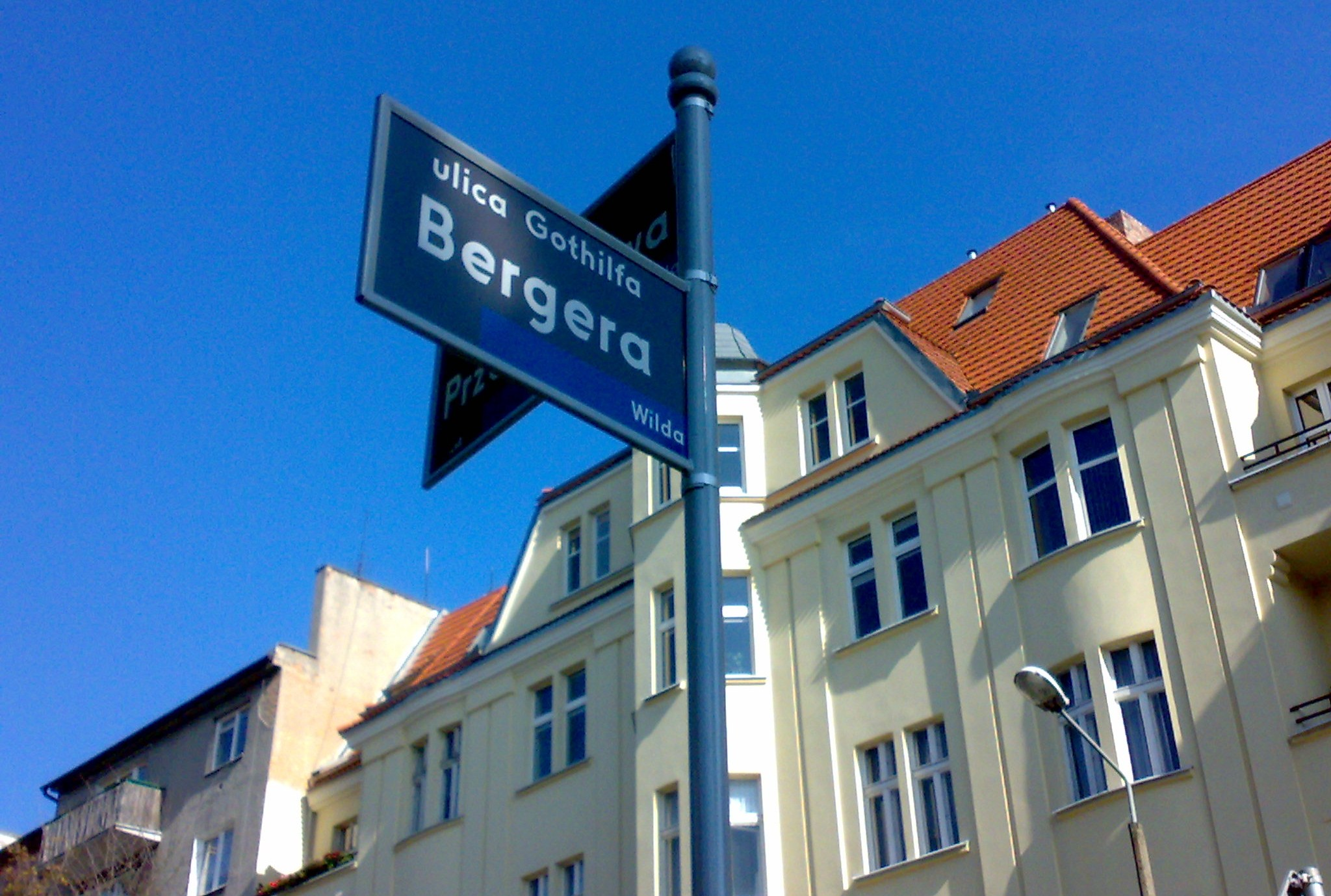 Gotthilf Berger Street, Poznan.